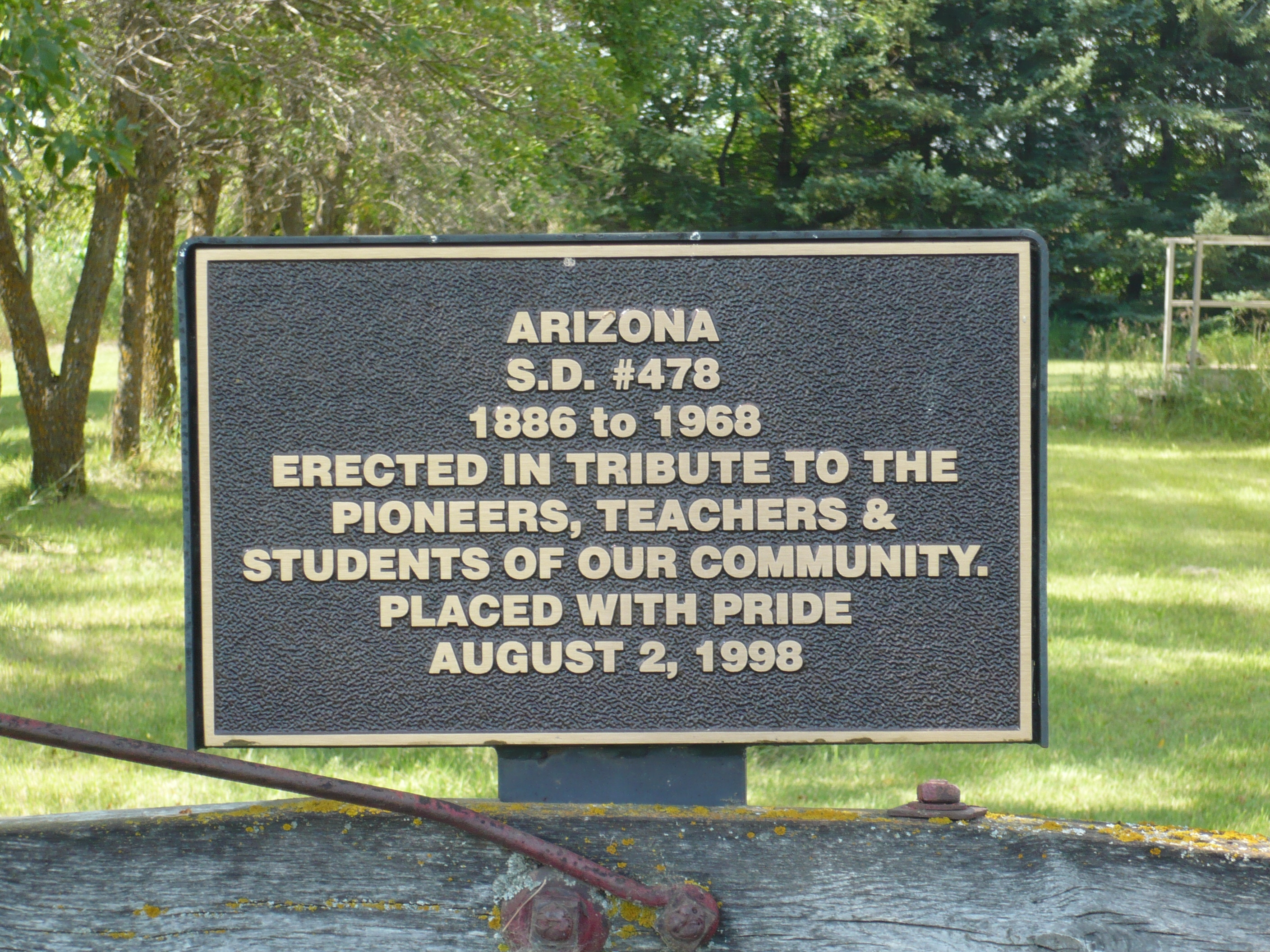 Plaque commemorating the pioneers, teachers, and students of the Arizona School District #478 at Arizona, Manitoba